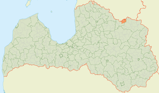 Location of Ape Parish in Latvia